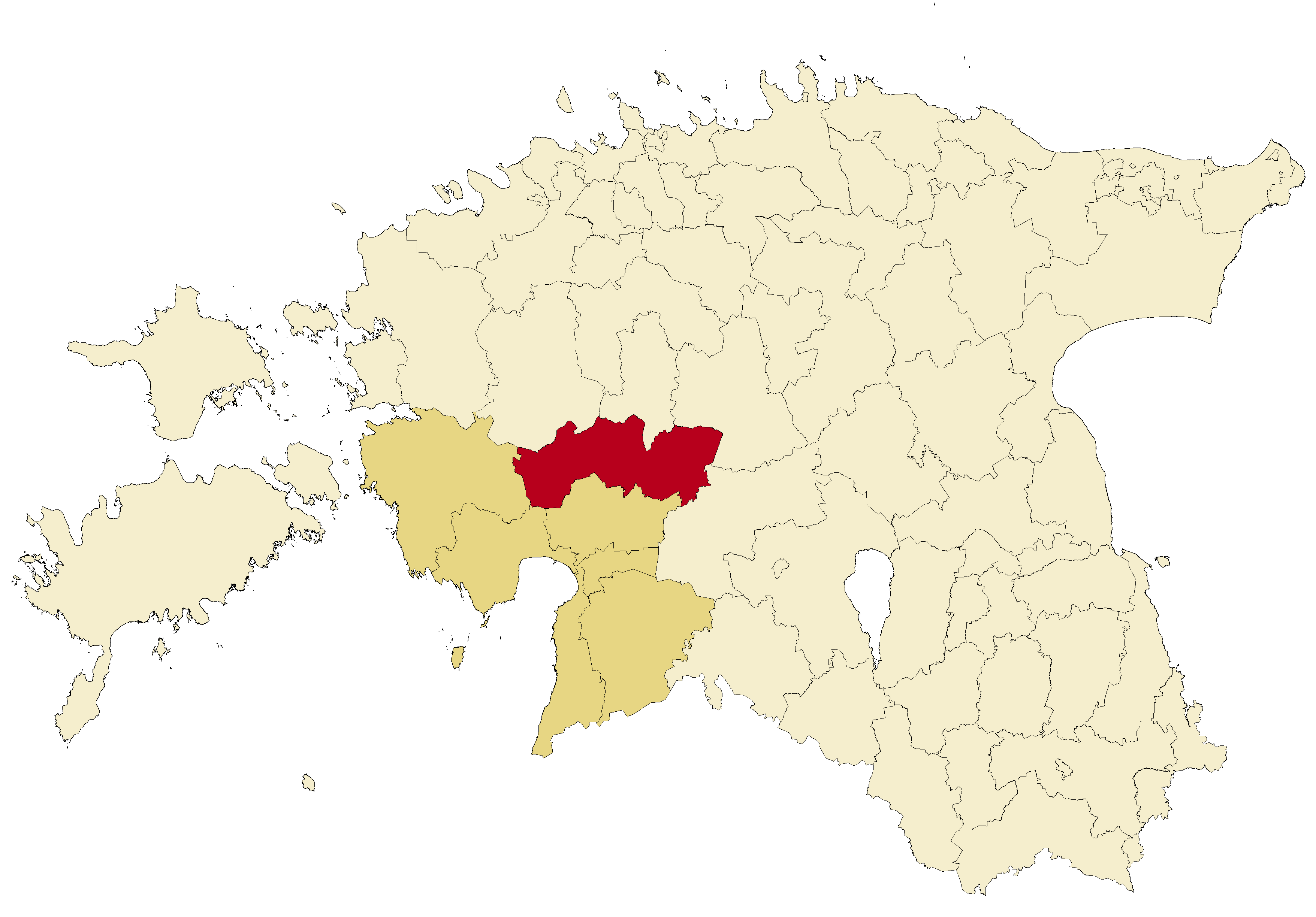 Location of Põhja-Pärnumaa Parish (red) within Pärnu County (dark yellow) after the Administrative Reform of Estonia in 2017.